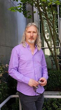 Photo of Corey in a purple shirt